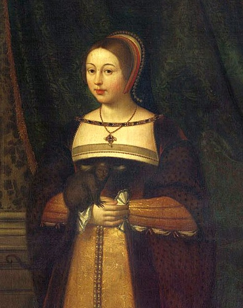 Posthumous portrait of Margaret Tudor (1489-1541), Queen consort of Scotland. Presumably copied from an earlier portrait.